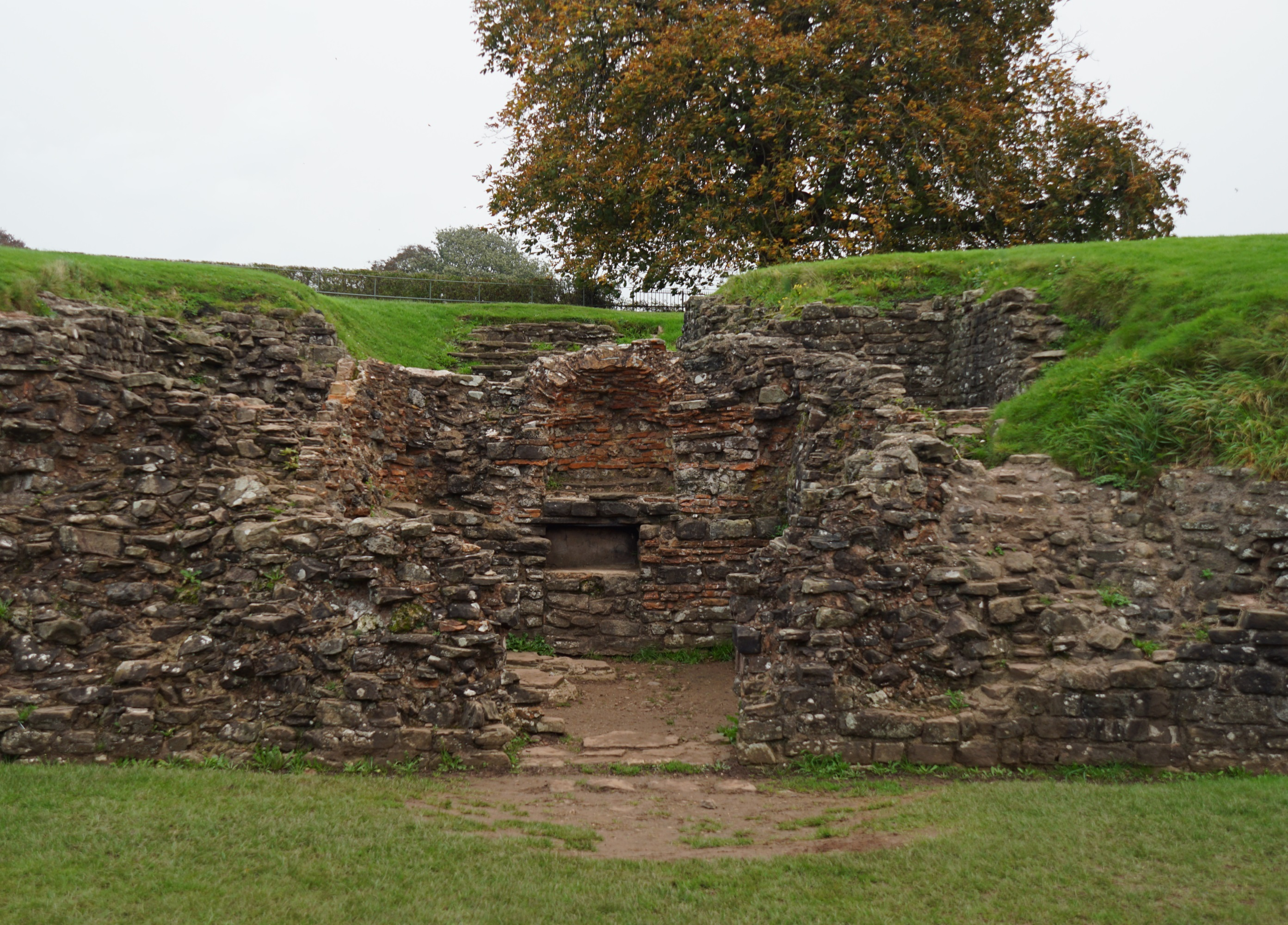 Caerleon Amphitheatre, Caerleon, Wales, United Kingdom. East entrance, seen from the arena. This is a possible location of a shrine for the goddess Nemesis.